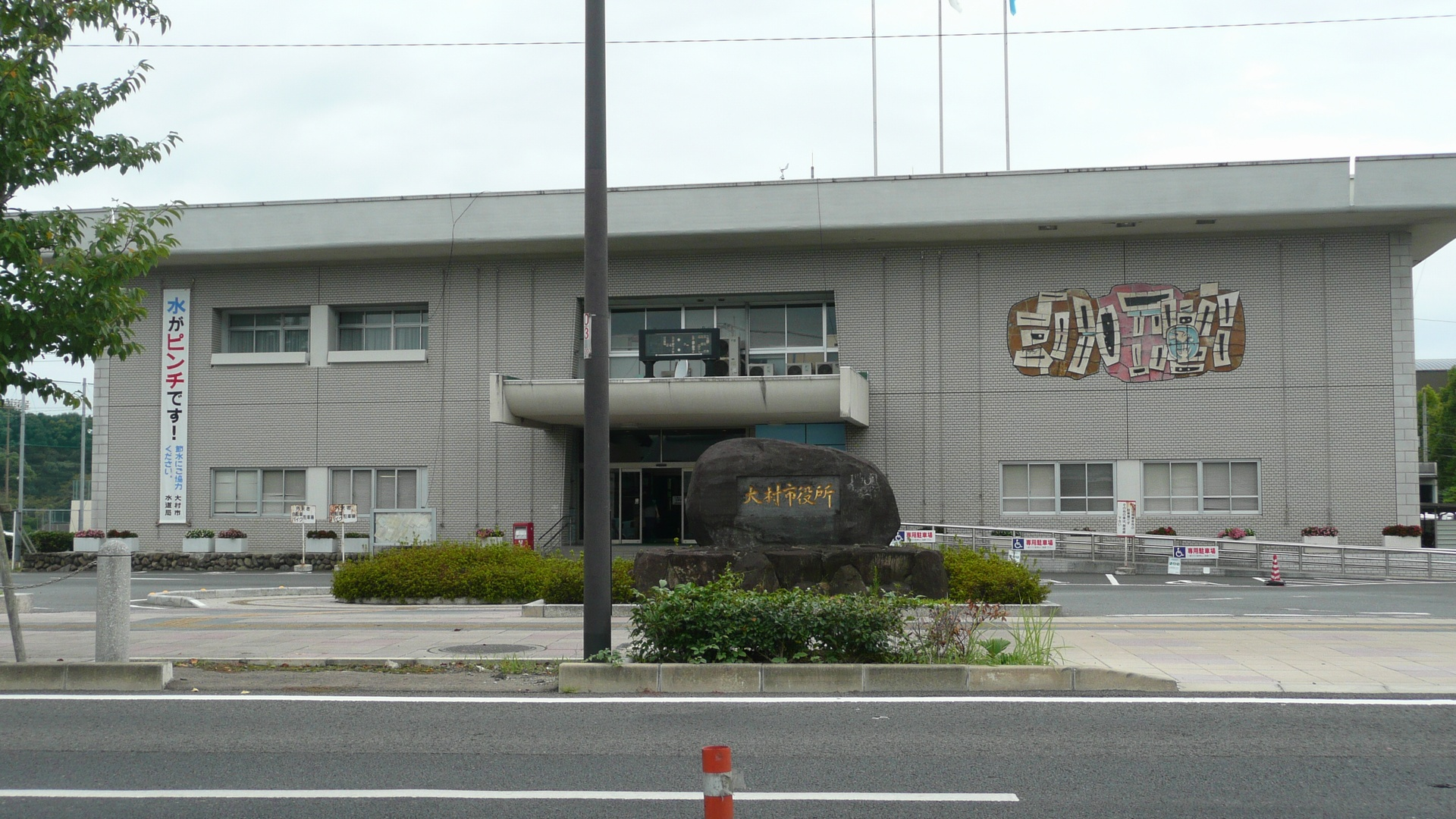 Omura City Office (Nagasaki, Japan)